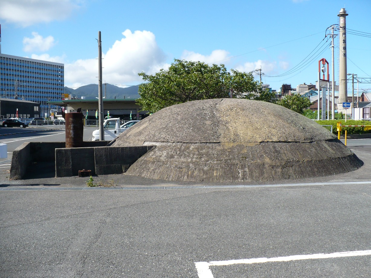 Site of Moji No.1 vertical shaft for Honshu-bound track of Kammon railway tunnel.